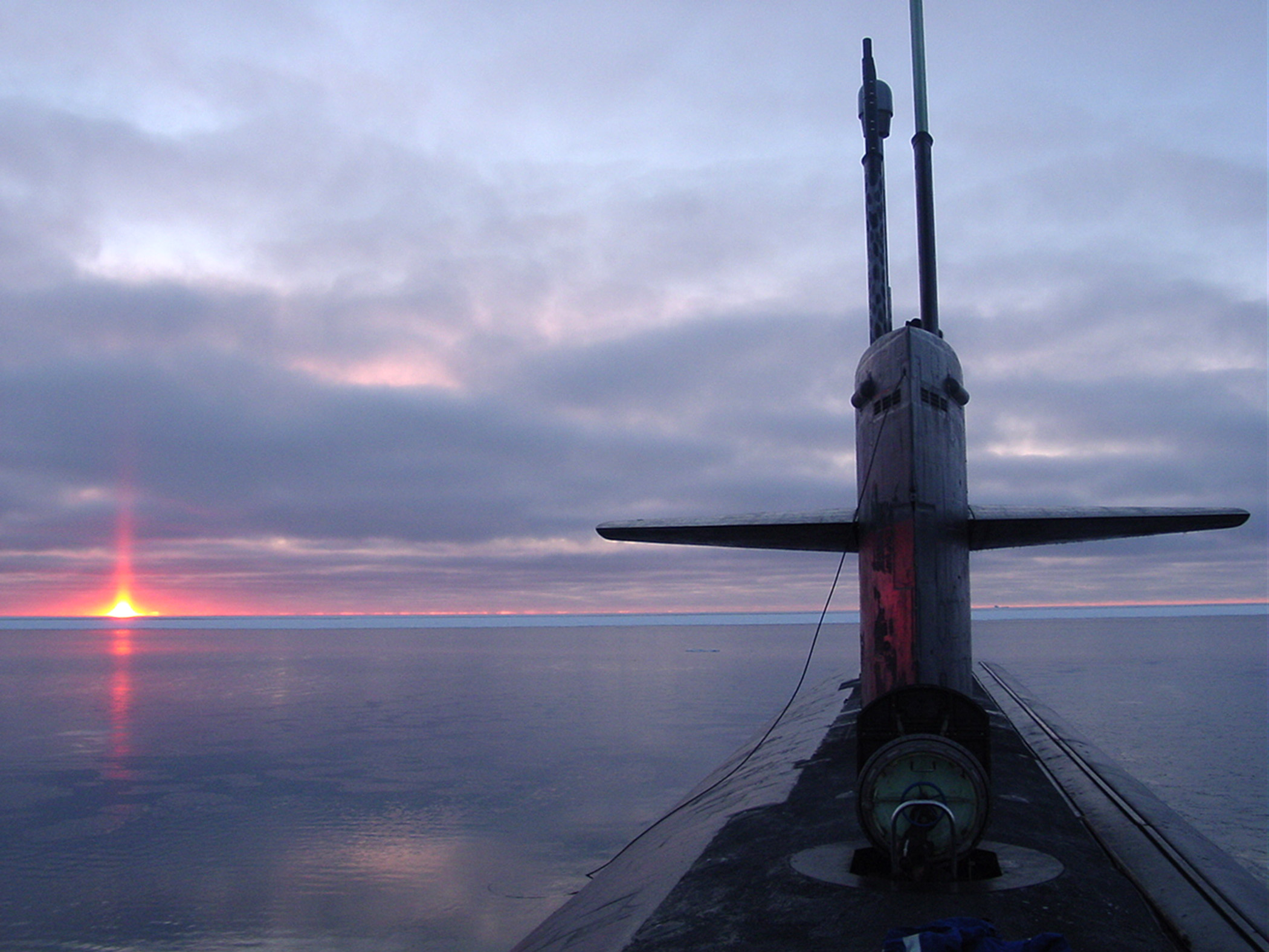 Arctic Circle (Oct. 2003) -- The Los Angeles-class fast attack submarine USS Honolulu (SSN 718) surfaces in an open water area approximately 280 miles from the North Pole. Commanded by Cmdr. Charles Harris, USS Honolulu, while conducting otherwise classified operations in the Arctic, collected scientific data and water samples for U.S. and Canadian Universities as part of an agreement with the Arctic Submarine Laboratory (ASL) and the National Science Foundation (NSF). USS Honolulu is the 24th Los Angeles-class submarine and the first original design in her class to visit the North Pole region. Honolulu is assigned to Commander, Submarine Force, U.S. Pacific Fleet, Submarine Squadron Three, Pearl Harbor, Hawaii. U. S. Navy photo by Chief Yeoman Alphonso Braggs. (RELEASED)